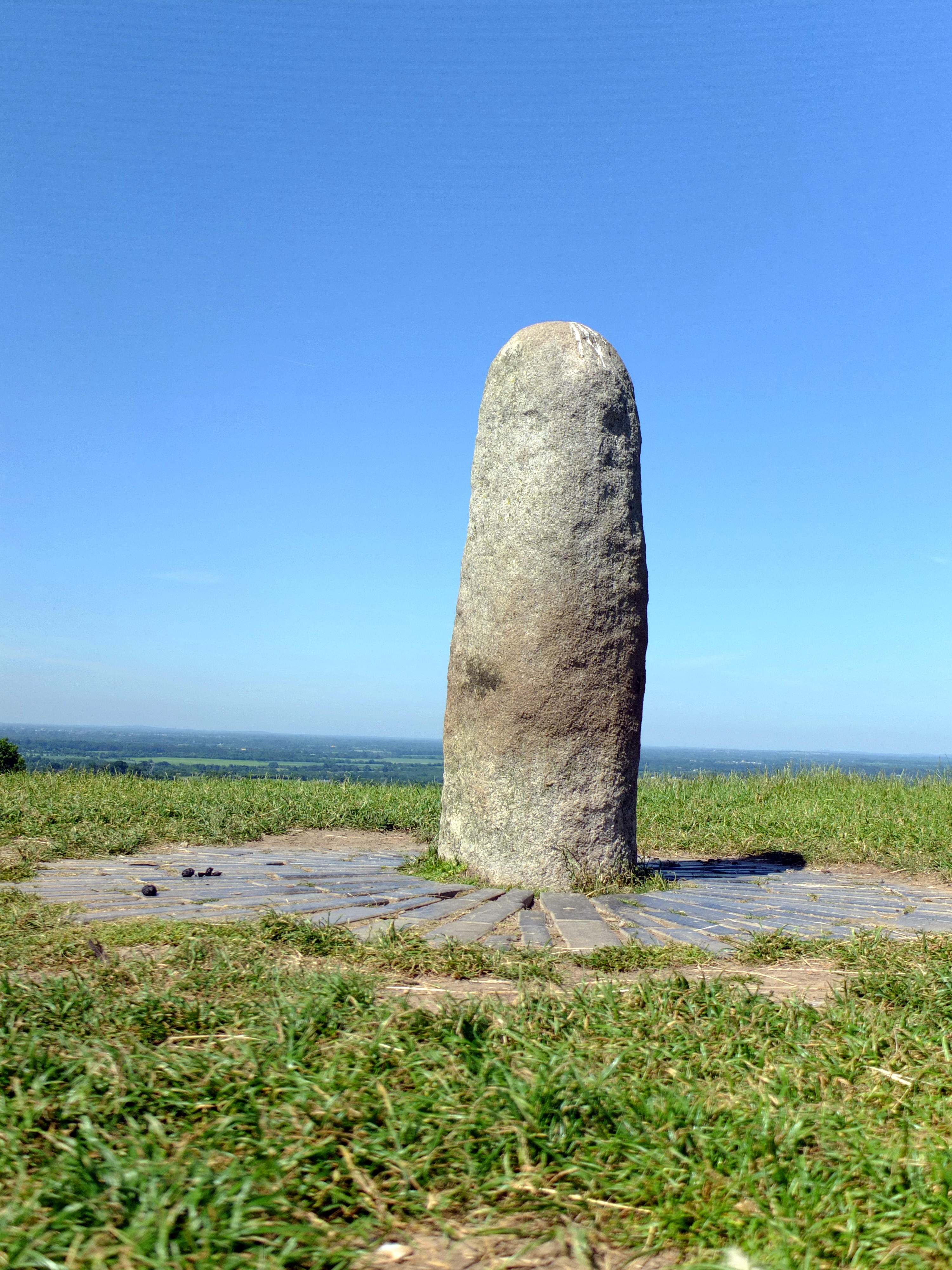 Hill of Tara